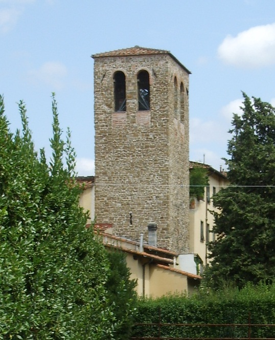 English